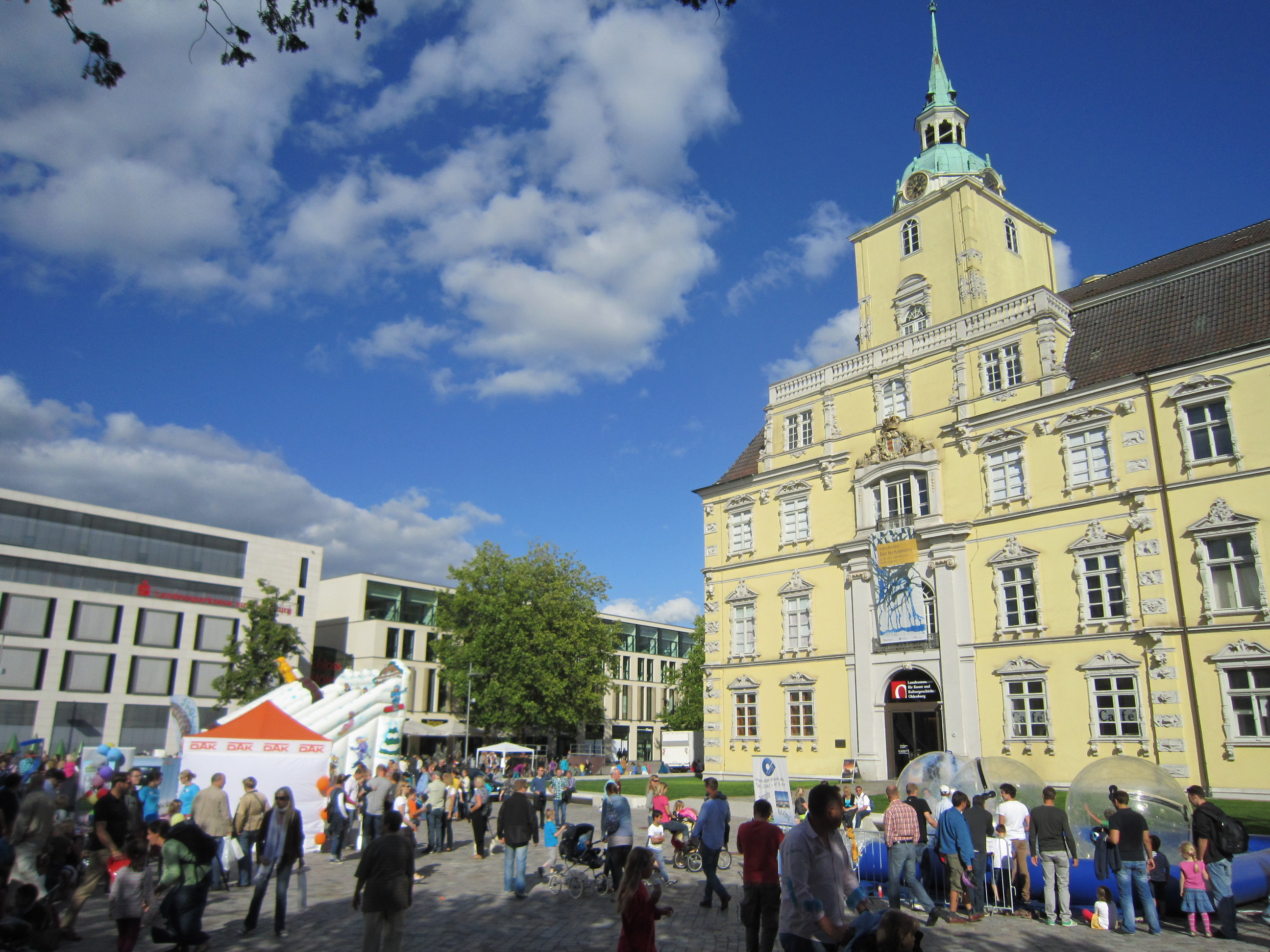 "Schlossplatz" (Castle Square) Oldenburg with Oldenburg Castle (right), shopping-mall "Schlosshöfe" (middle) and "Landessparkasse zu Oldenburg" (left) during the City Festival 2012